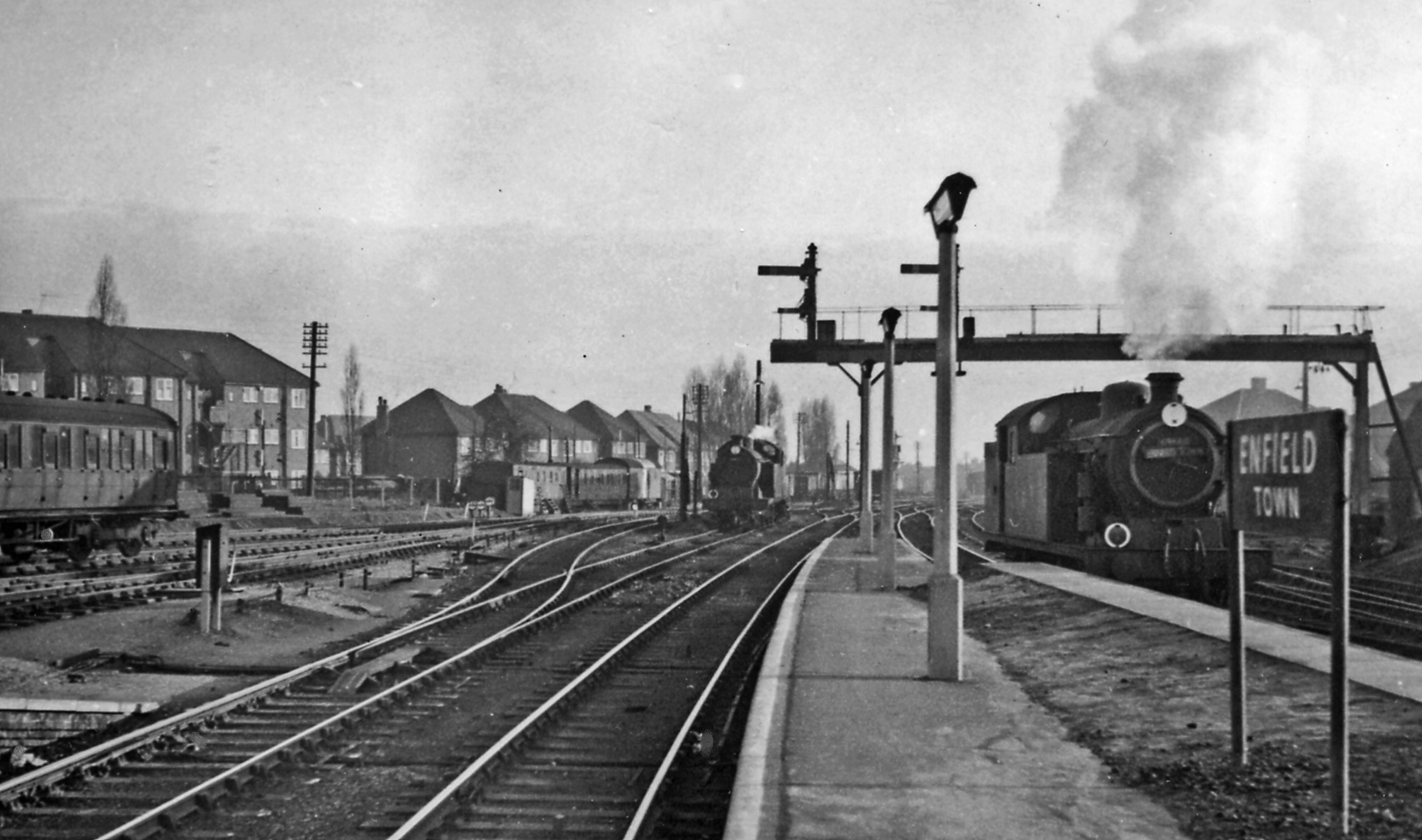 Enfield Town station: platform end scene towards London. View SE, towards Liverpool Street via Seven Sisters and Hackney Downs: terminus of intensive suburban service, not electrified until 11/60. Two of the Hill/Gresley N7 class 0-6-2Ts normally employed are seen: Nos. 69660 (built 11/25 as No. 941, withdrawn 5/59) on the right and No. 69671 (built 1/26 as No. 988, withdrawn 9/62) further back.